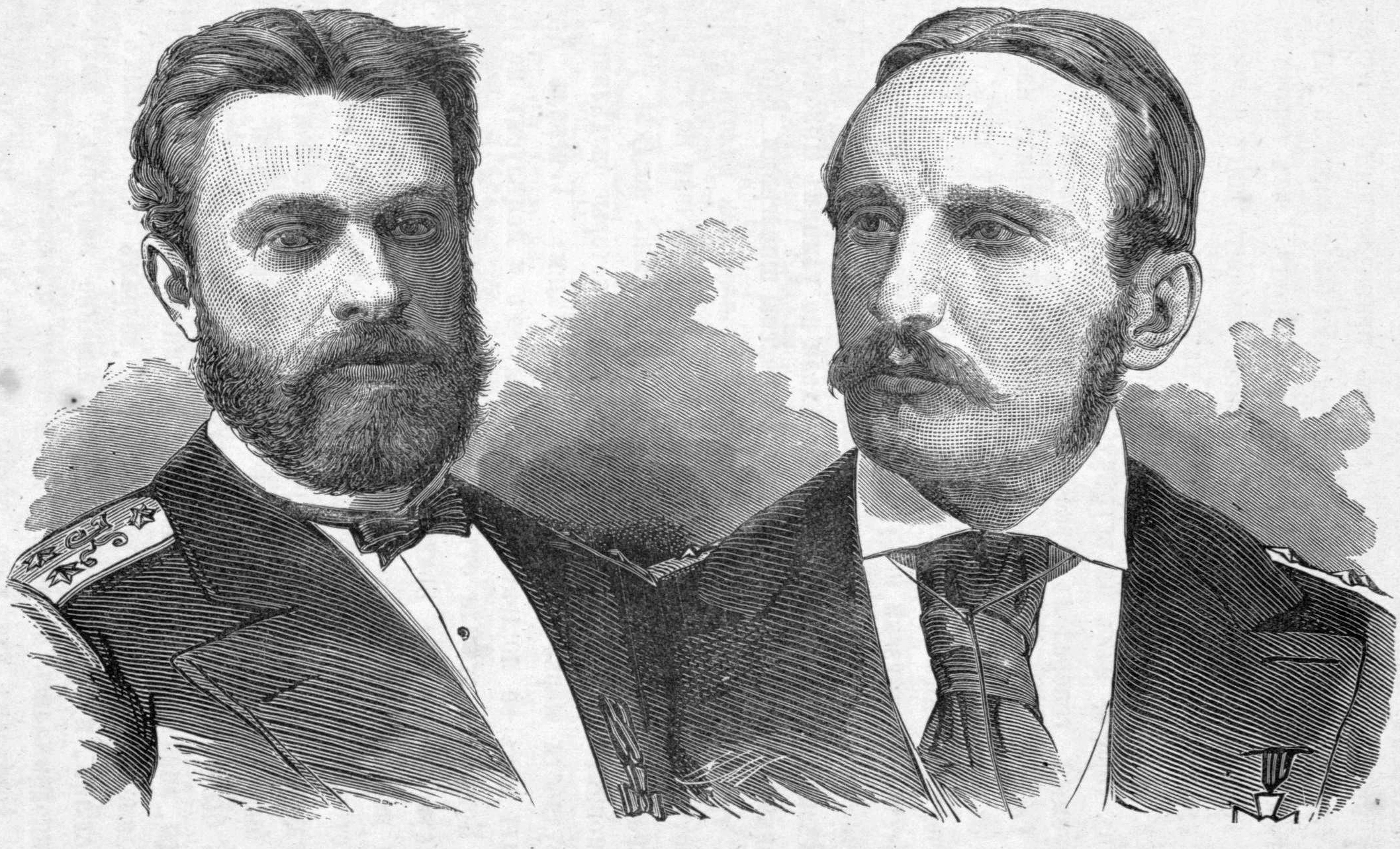 Alexander Shestakov & Fedor Dubasov